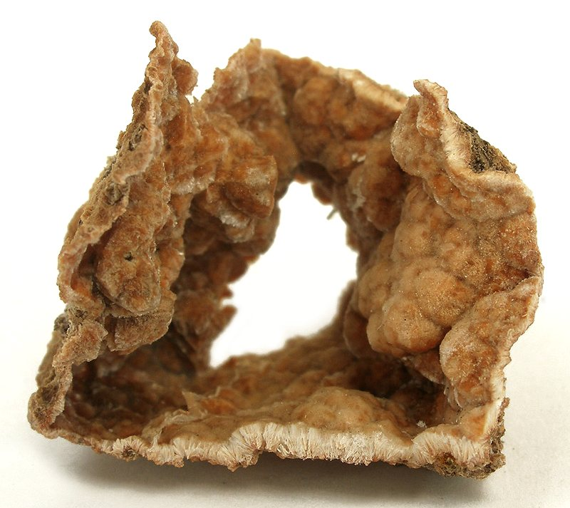 Ferrierite-Na Locality: Monte Lake, Kamloops Mining Division, British Columbia, Canada (Locality at ) Size: miniature, 3.2 x 2.6 x 2.5 cm Ferrierite-Mg A very attractive "pocket" specimen of ferrierite from this type locality. Ferrierite is a rare zeolite species Named for Walter Frederick Ferrier (1865-1950), Canadian geologist and mining engineer (MINDAT). Ex. John White Collection.